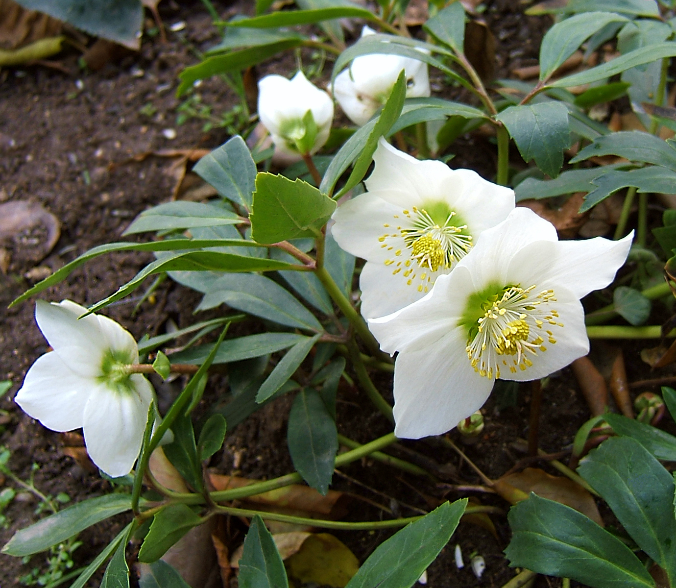 Christmas rose, Black hellebore